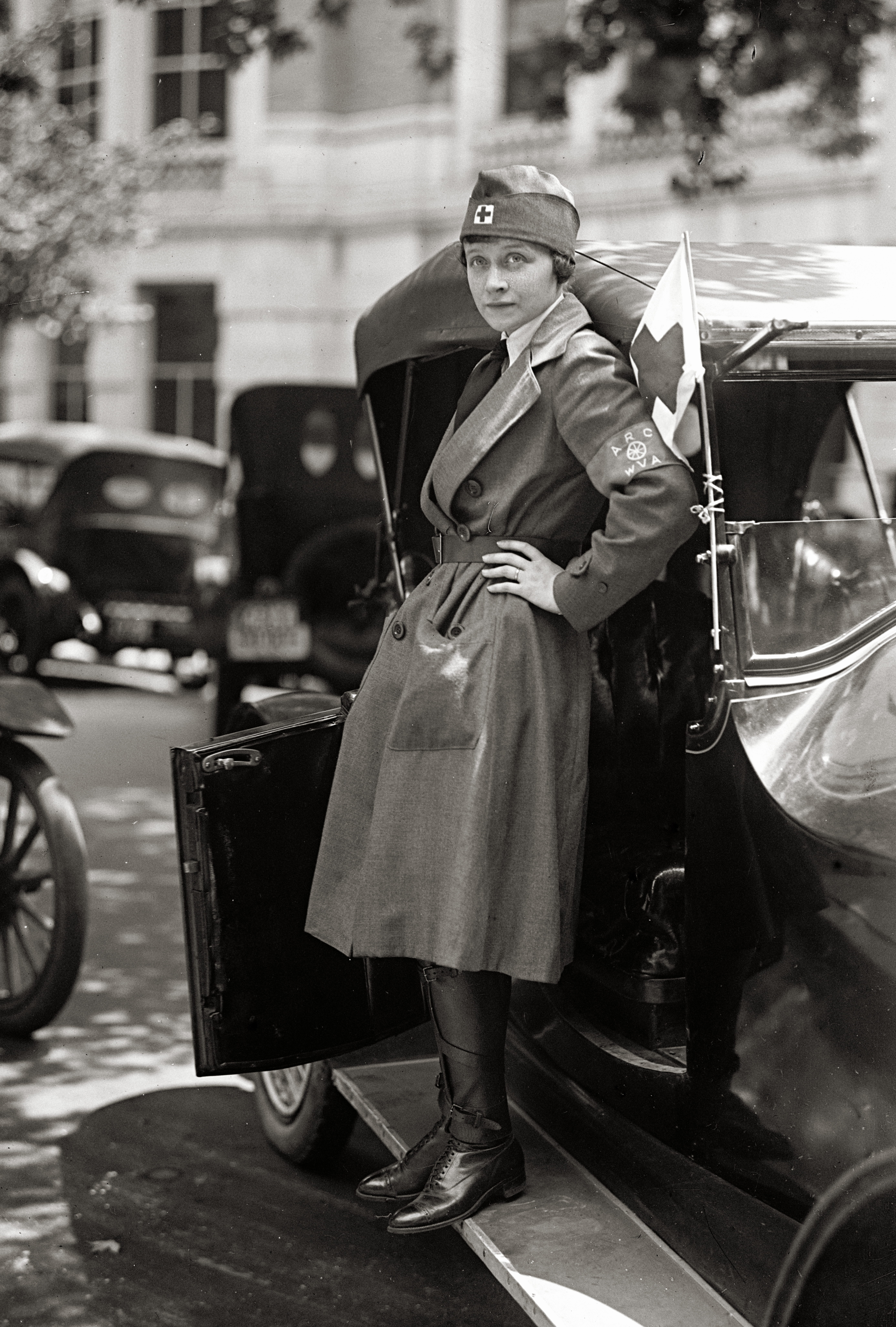 A woman from West Virginia who worked for the Red Cross Motor Corps is photographed in Washington, D.C.